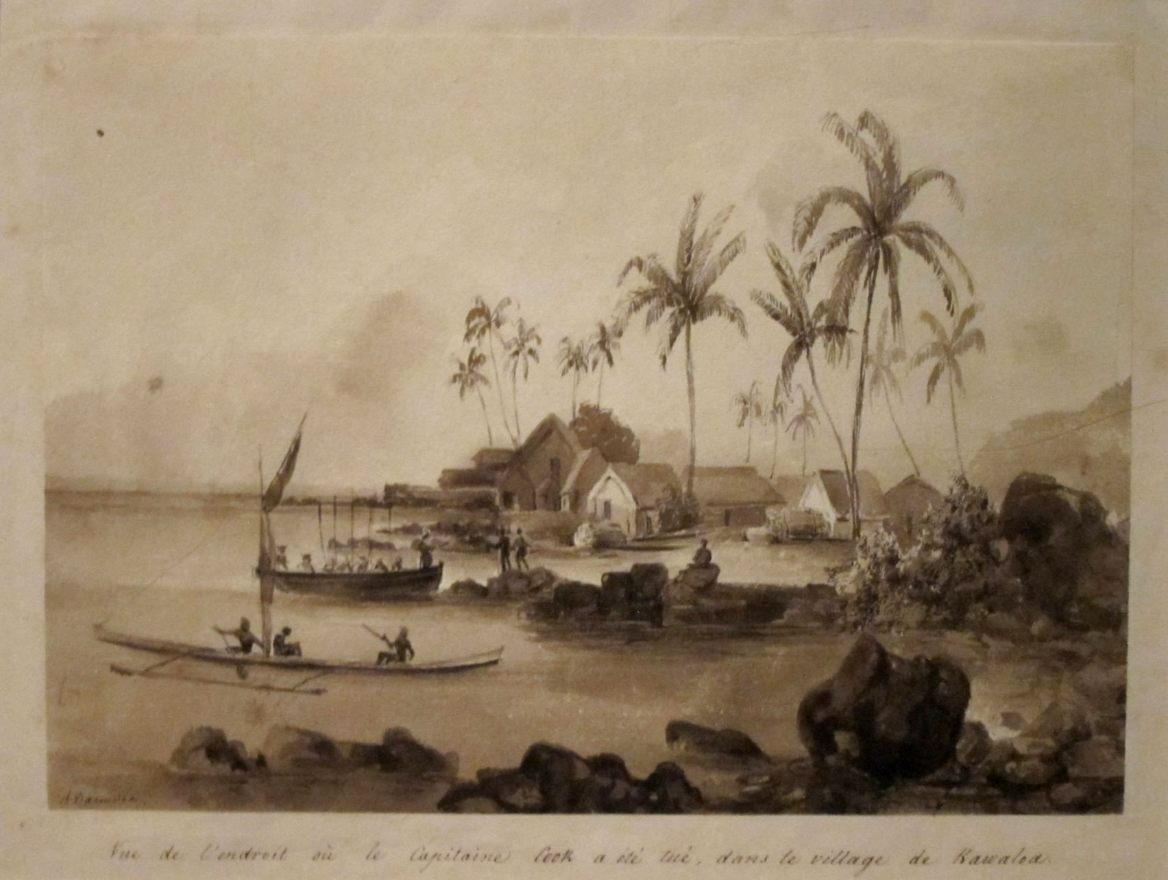 View of the Place where Captain Cook Was Killed (Kealakekua Bay), pen, ink and sepia wash on paper by Stanislaus Darondeau, 1836, Honolulu Museum of Art